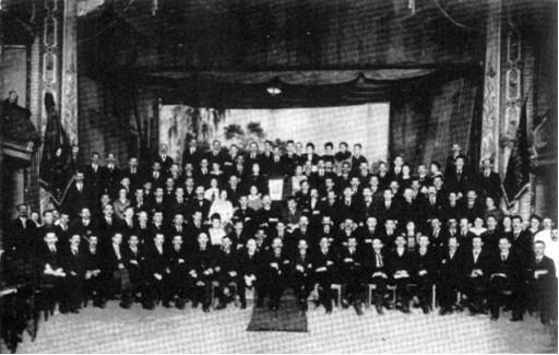 Congress of FAUD (Freie Arbeiter-Union Deutschland) 1922 in Erfurt